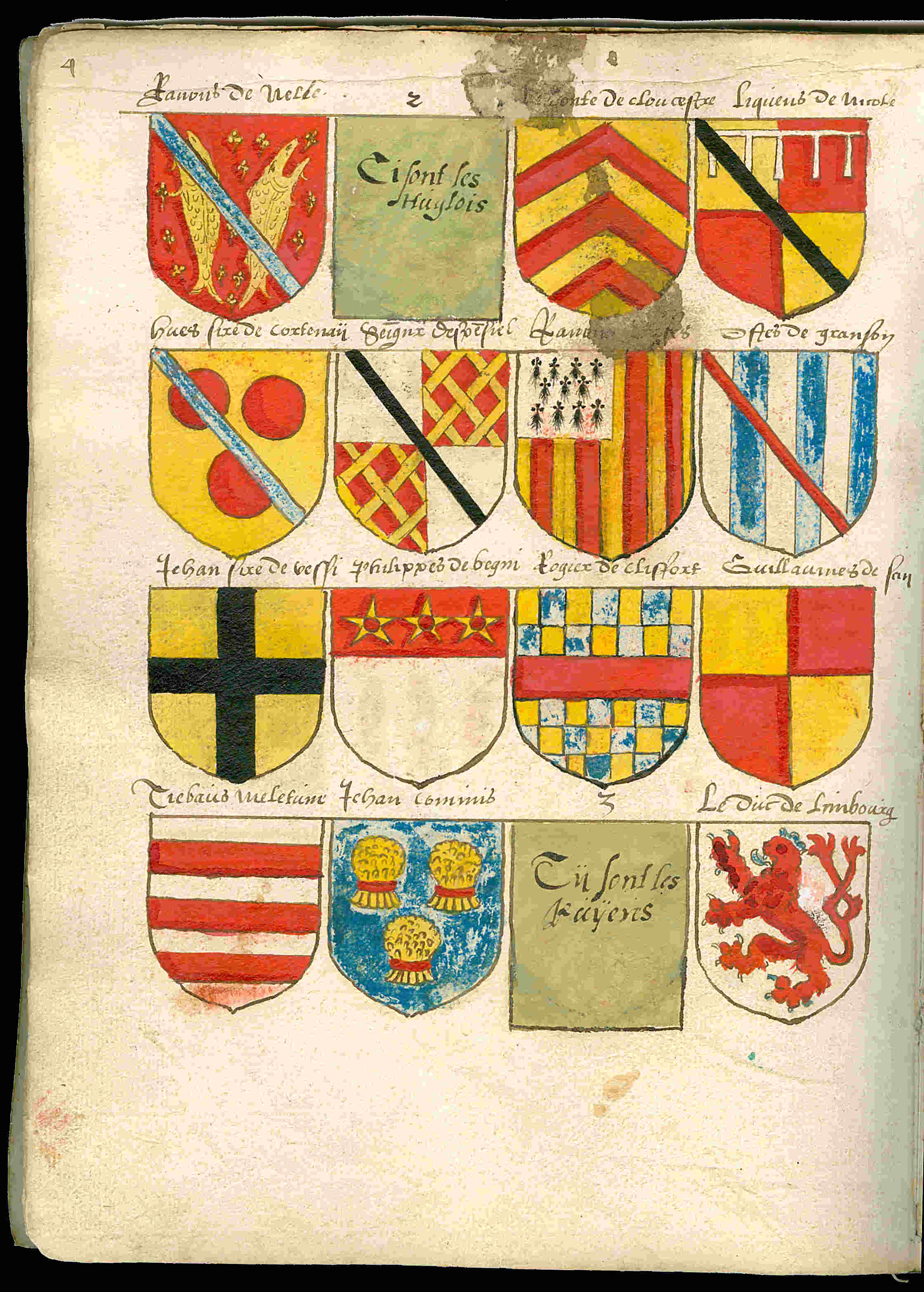 Page 04 from a copy of the Beyeren armorial / Wapenboek Beyeren from ca. 1600. The original Beyeren armorial from 1405 can be viewed at the website of the KB